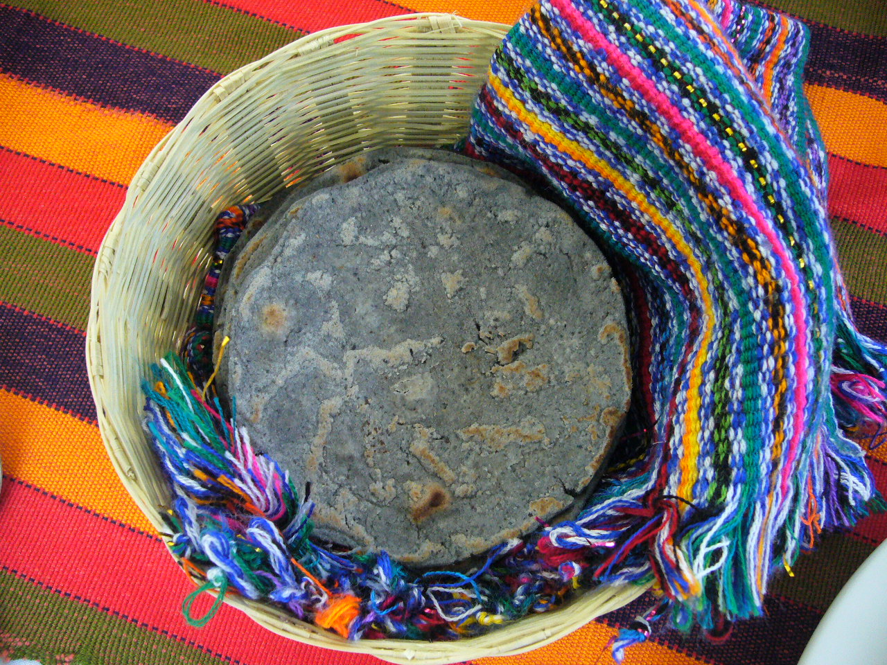 Black (or blue) maize tortillas